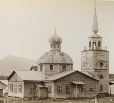 Title: "Greek Church", Sitka. St. Michael's Cathedral (Sitka, Alaska) Creator: Partridge Photo. Date: 1887 Place: Alaska Part Of: Partridge's Alaska photographs Physical Description: 1 photographic print: 11 x 19 cm. on 14 x 22 cm. mount File: ag1982_0092_16_church_sm_opt.jpg Rights: Please cite Southern Methodist University, Central University Libraries, DeGolyer Library when using this image file. A high-quality version of this file may be obtained for a fee by contacting . For more information, see: View U.S. West: Photographs, Manuscripts, and Imprints